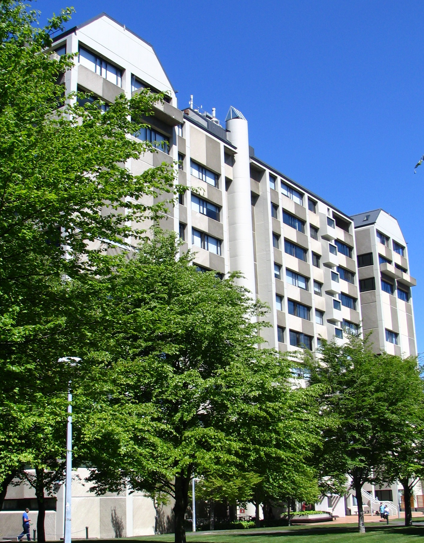 Richardson Building on the Dunedin campus of the University of Otago, New Zealand. Formerly the Hocken Library, as of 2008 home to the Faculty of Law